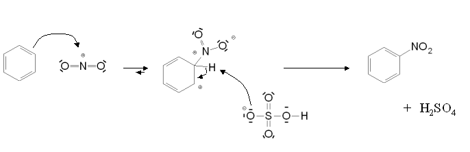 Mecanism of the aromatic electrophilic nitration